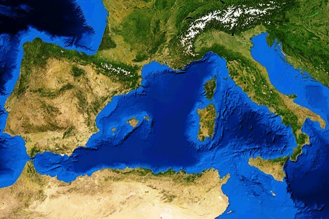 Mediterranean sea, Occidental basin